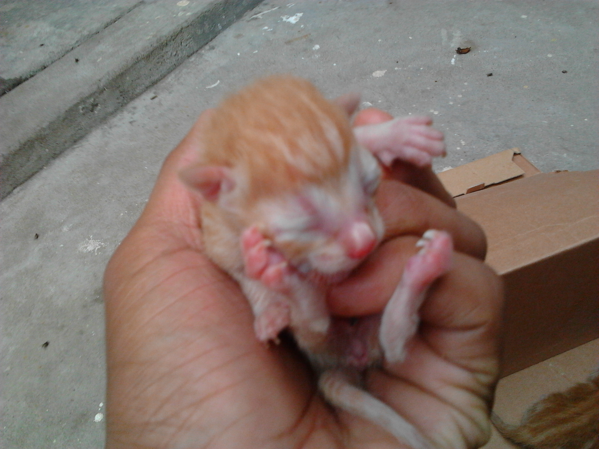 A newborn kitten.